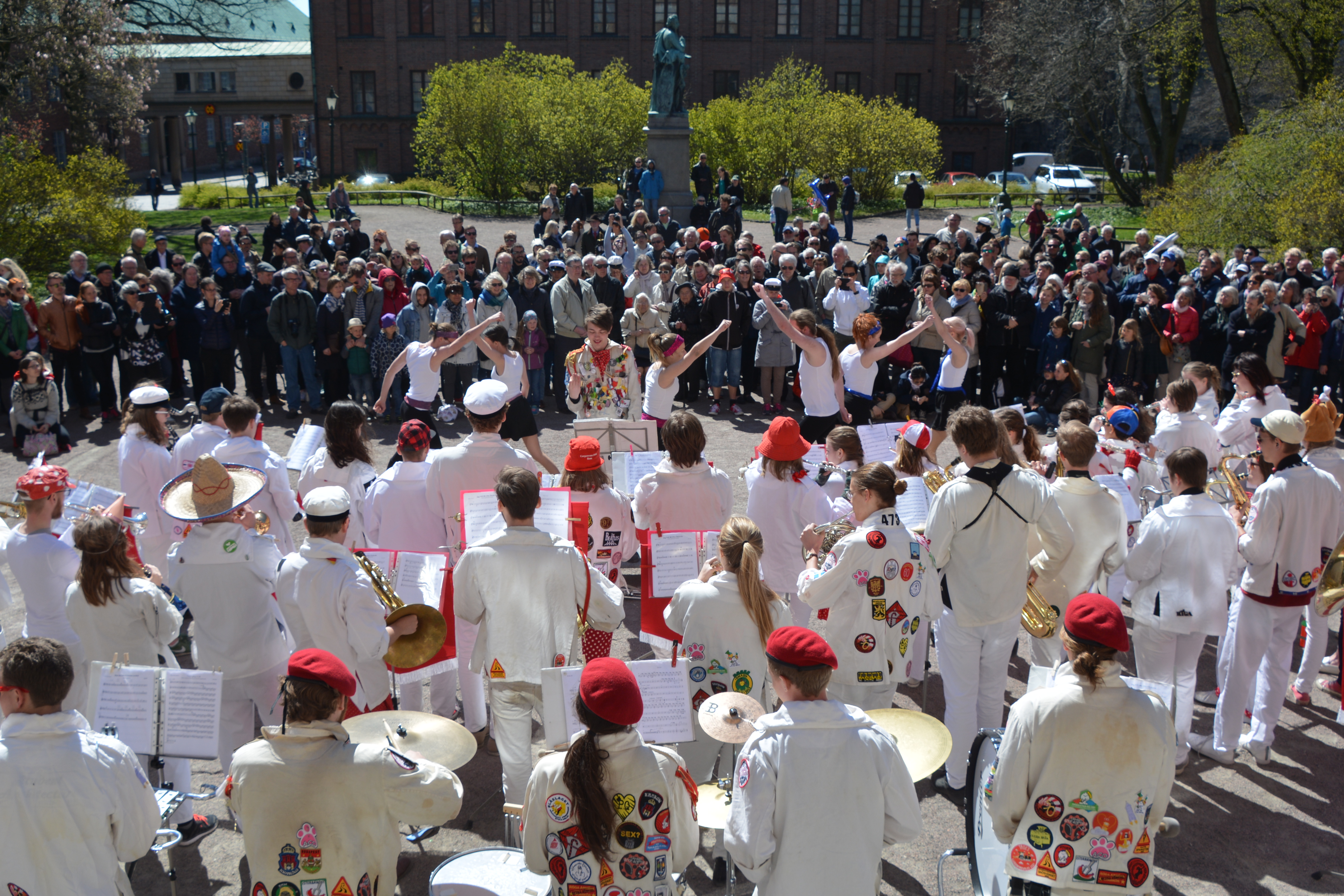 Bleckhornen. Konsert på Tegnerplatsen i Lund den 1 maj 2017